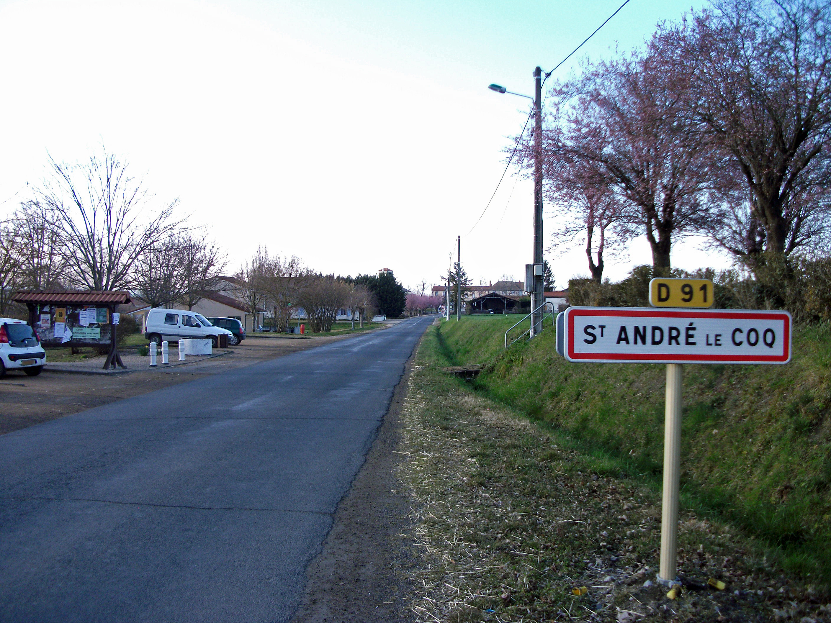 Entrance of Saint-André-le-Coq by departmental road 91 [10449]